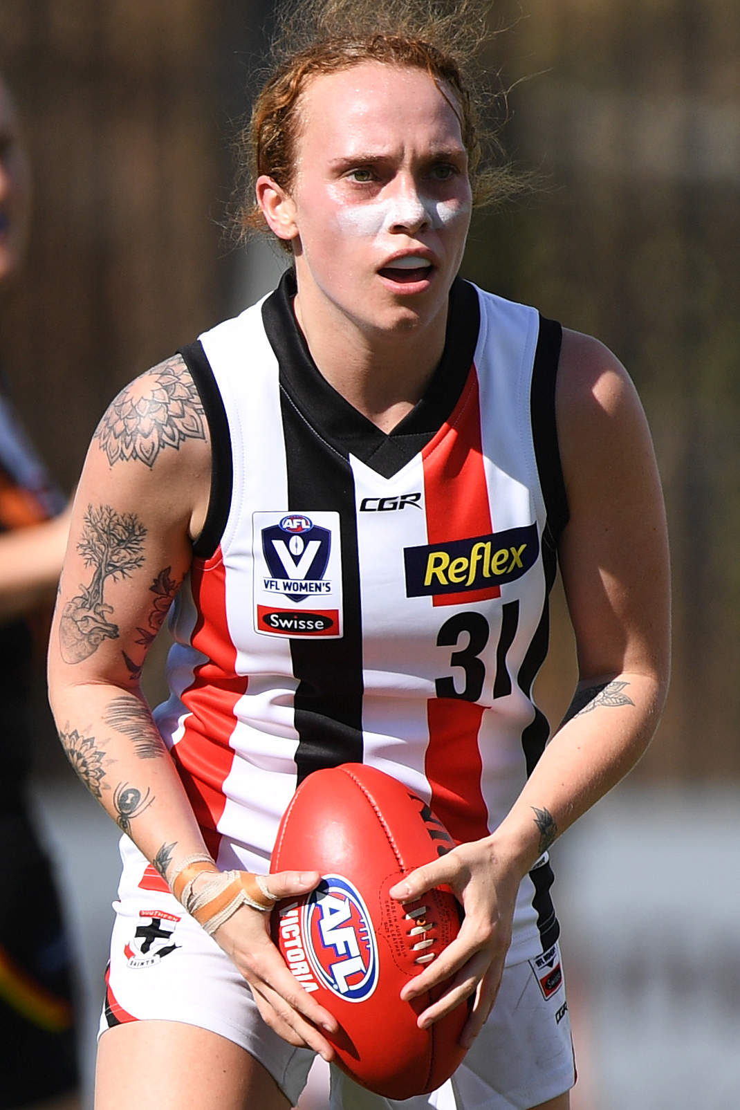 Tilly Lucas-Rodd of the Southern Saints during the 2019 VFLW round 2 match between NT Thunder and the Southern Saints at TIO Stadium on Saturday, 18 May 2019 in Darwin, Northern Territory.